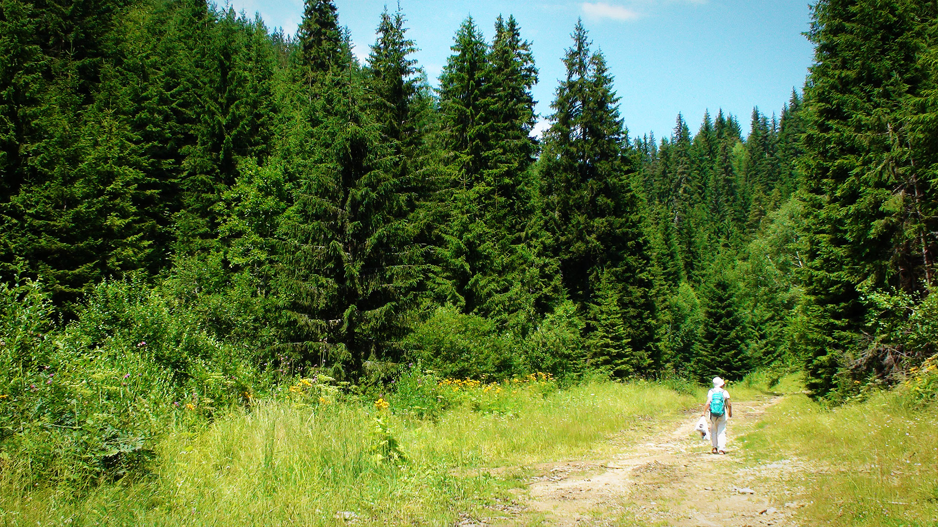 This is a photography of Natura 2000 protected area with ID GR1140003